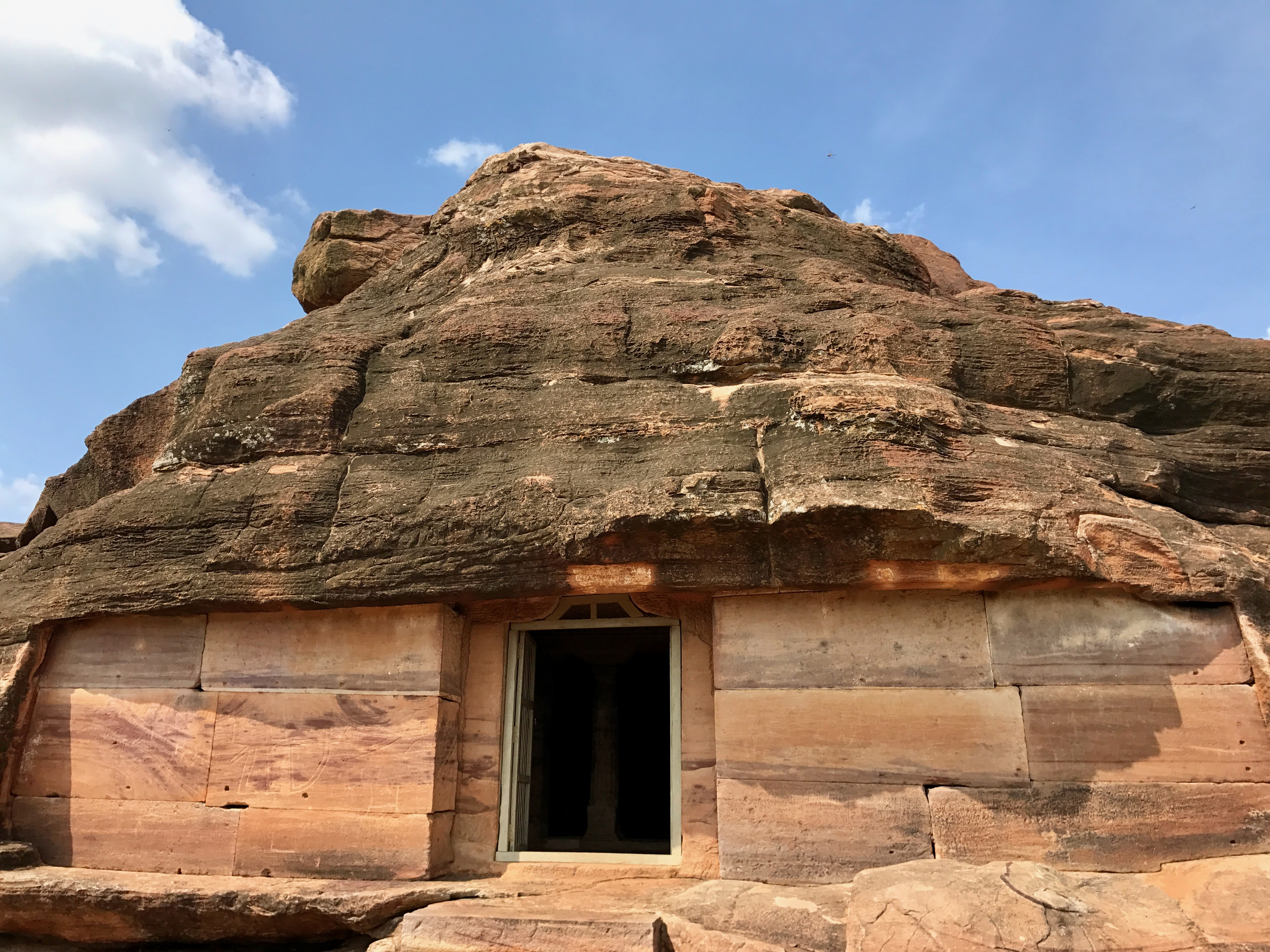 Aihole temples and monuments, also called Aivalli or Ayyavole or Aiholi temples and monuments, are a collection of over 100 temples built predominantly between 6th and 8th century near Malaprabha river in Karnataka. At this point, the river turns northwards towards the Himalayas which likely had significance as a location. Though defaced and damaged after the region was conquered by Muslim commanders of the Delhi and Bijapur Sultanate, the collection is one of the earliest surviving temples and window to ancient Indian arts, religious beliefs, society and architecture. Almost all temples are related to Hinduism, but these co-exist with a few Jain temples of this period and one Buddhist monument. Both north Indian and south Indian styles fuse here, with monuments suggesting experimentation of ideas and building styles under the sponsorship of late Gupta period Hindu kingdoms, particularly the Calukyas and Rashtrakutas. The Jain monuments are few and variously dated to 5th to 7th century. They were built and sponsored by commanders or kings belonging to the Hindu kingdoms according to the inscriptions near the Jaina temples. Compared to the profusion of carvings and artworks found in Hindu temples of this period, the Jain temples are simpler and dedicated to Tirthankaras in standing posture.